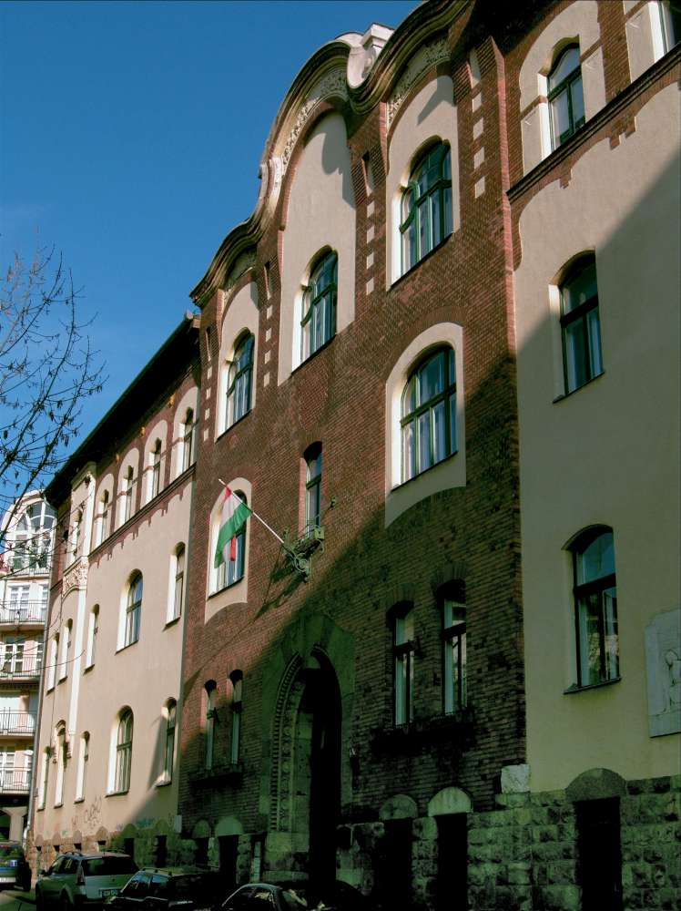 2. distr., Kitaibel Pál str. 1., Budapest, Hungary